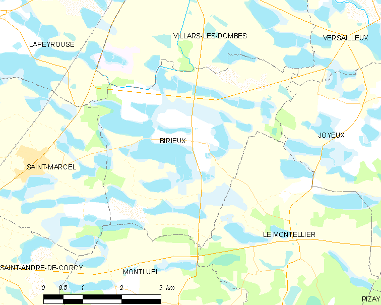 Map of French commune: Birieux Map commune FR insee code 01045.png